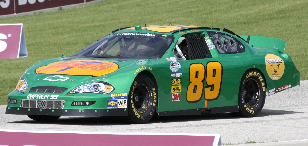 The NASCAR racecar for driver Morgan Shepherd at the 2010 Bucyrus 200 at Road America.